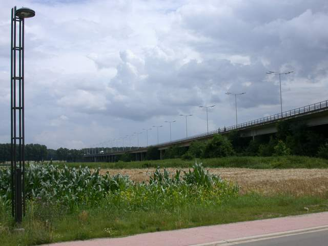 The Scharbergbrug, a bridge over the river Maas connecting the Belgian motorway A2 and the Dutch motorway A76.